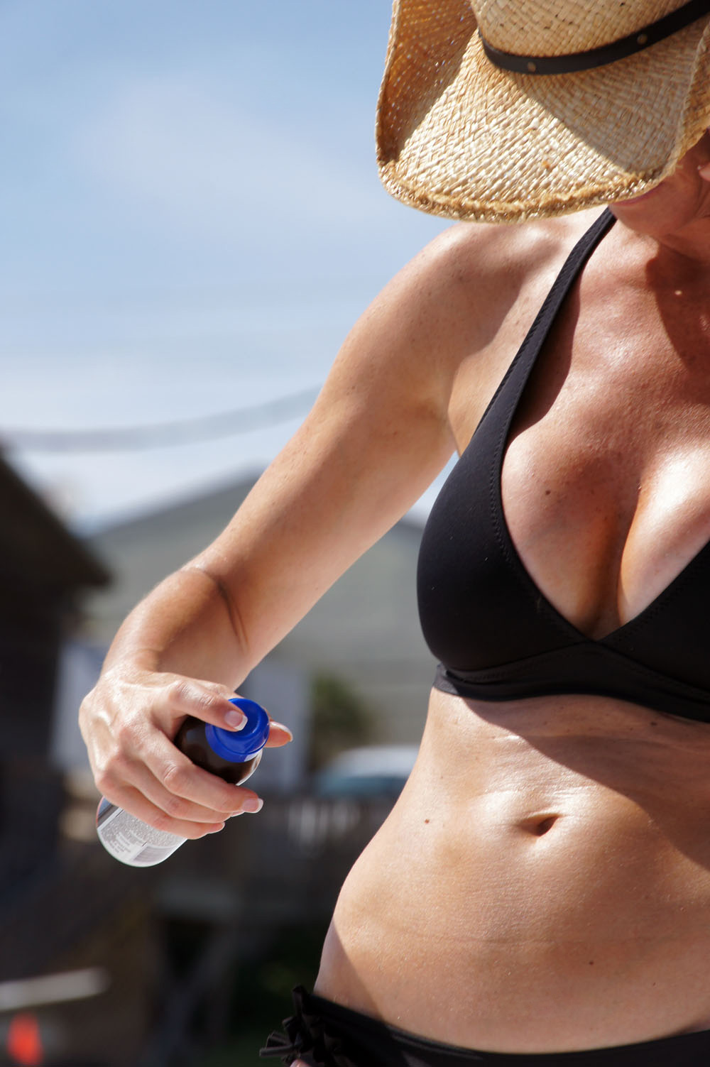 Sunscreen spray in use